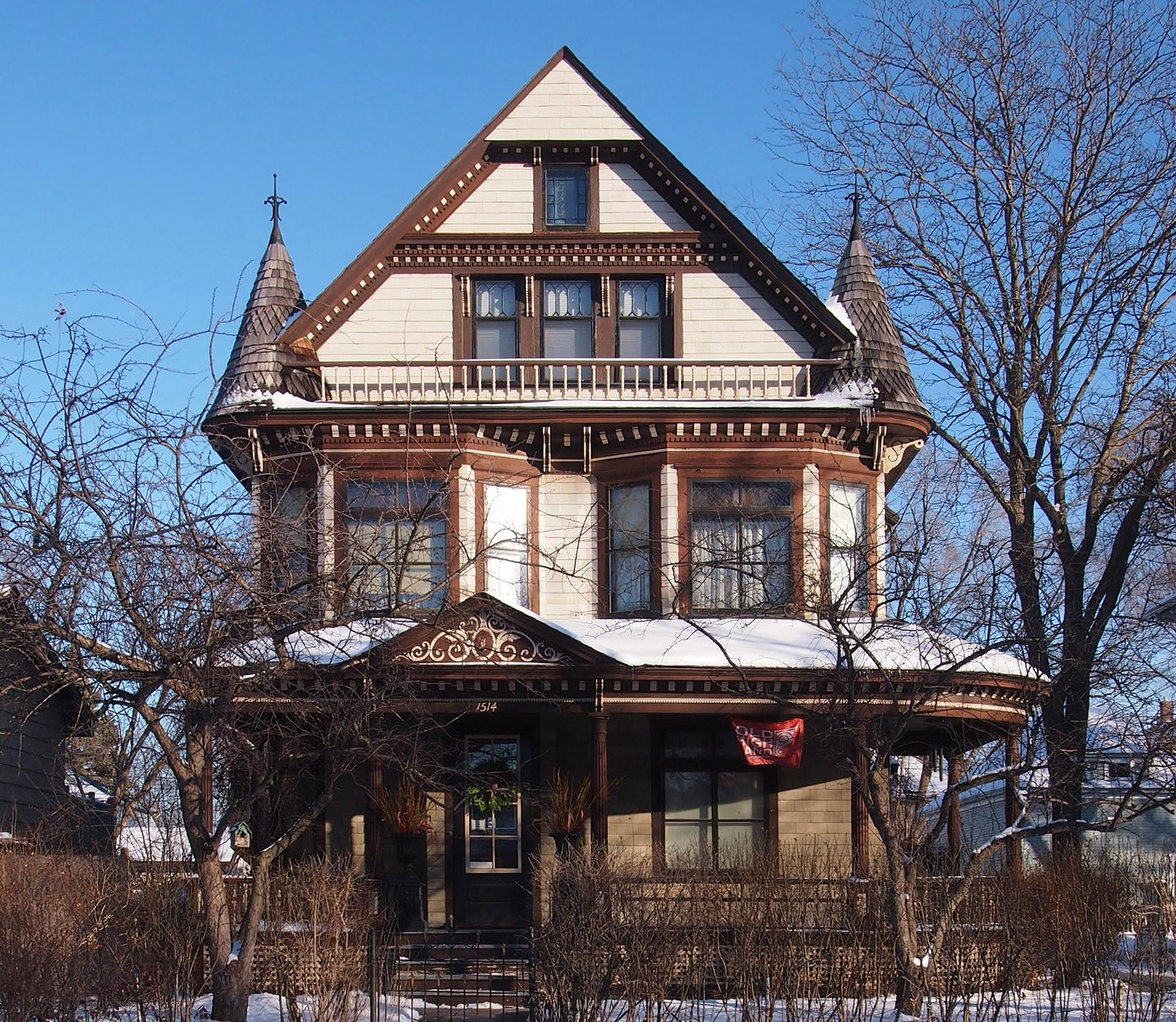 John Lohmar House, 1514 Dupont Ave N, Minneapolis, Minnesota, USA. Viewed from the west.